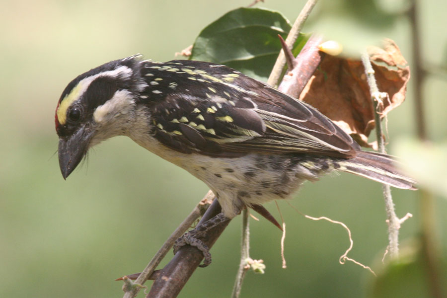 Red-fronted barbet photographed in Abijatta-Shalla national park